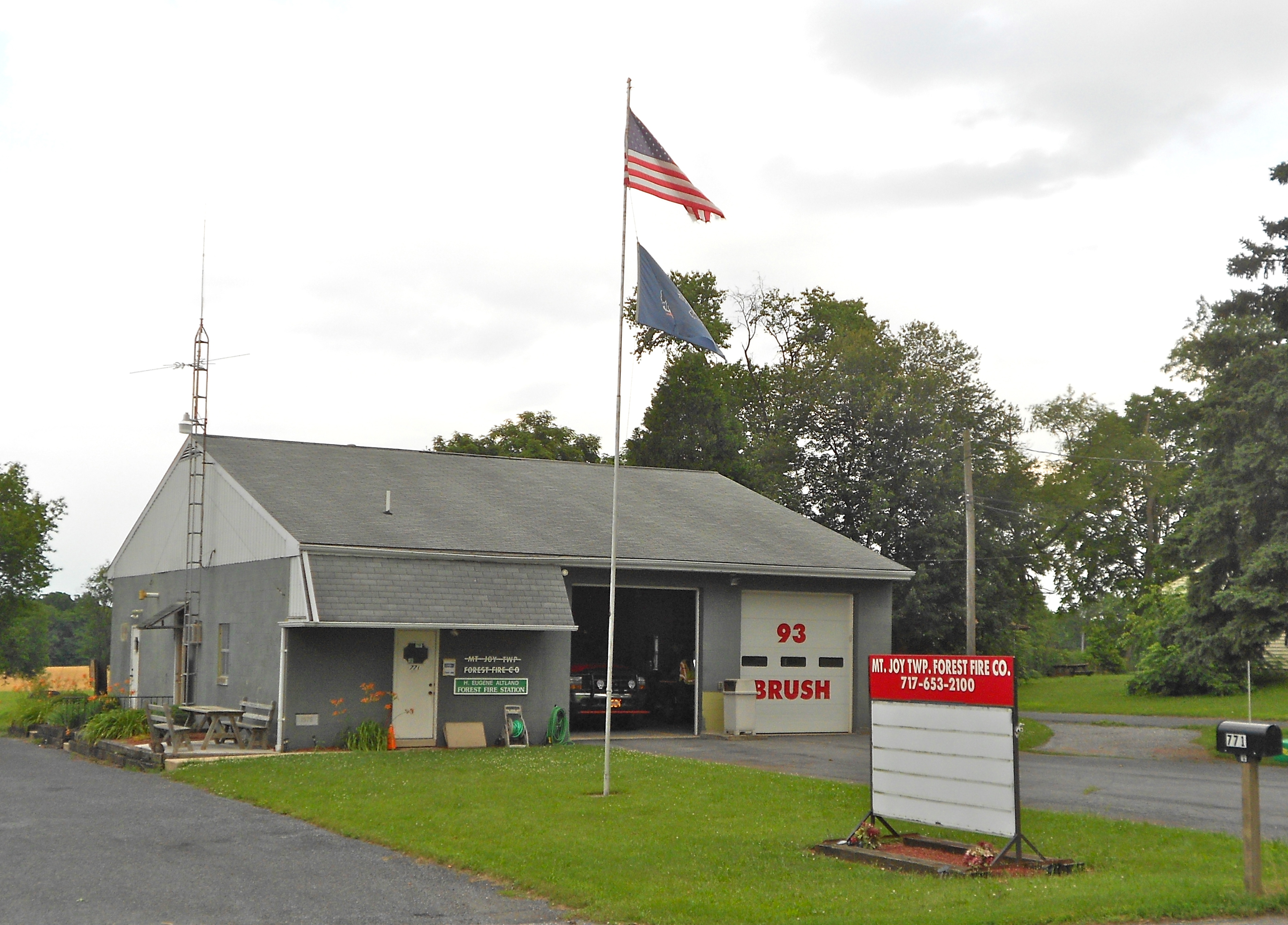 The Mt Joy Township Forest Fire Co, Lancaster County, Pennsylvania. There aren't a whole lot of forests in Mt. Joy Township, but the guy on duty said they do brush fires and the like.